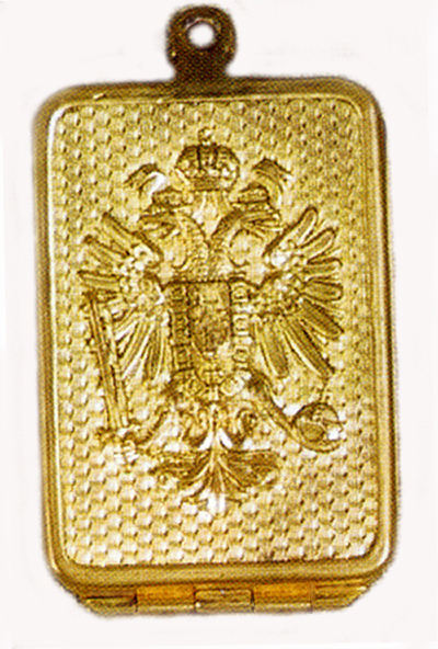 Austria-Hungarian Army small container for covering the personal idendity document for identifivation in case of death on the battlefield